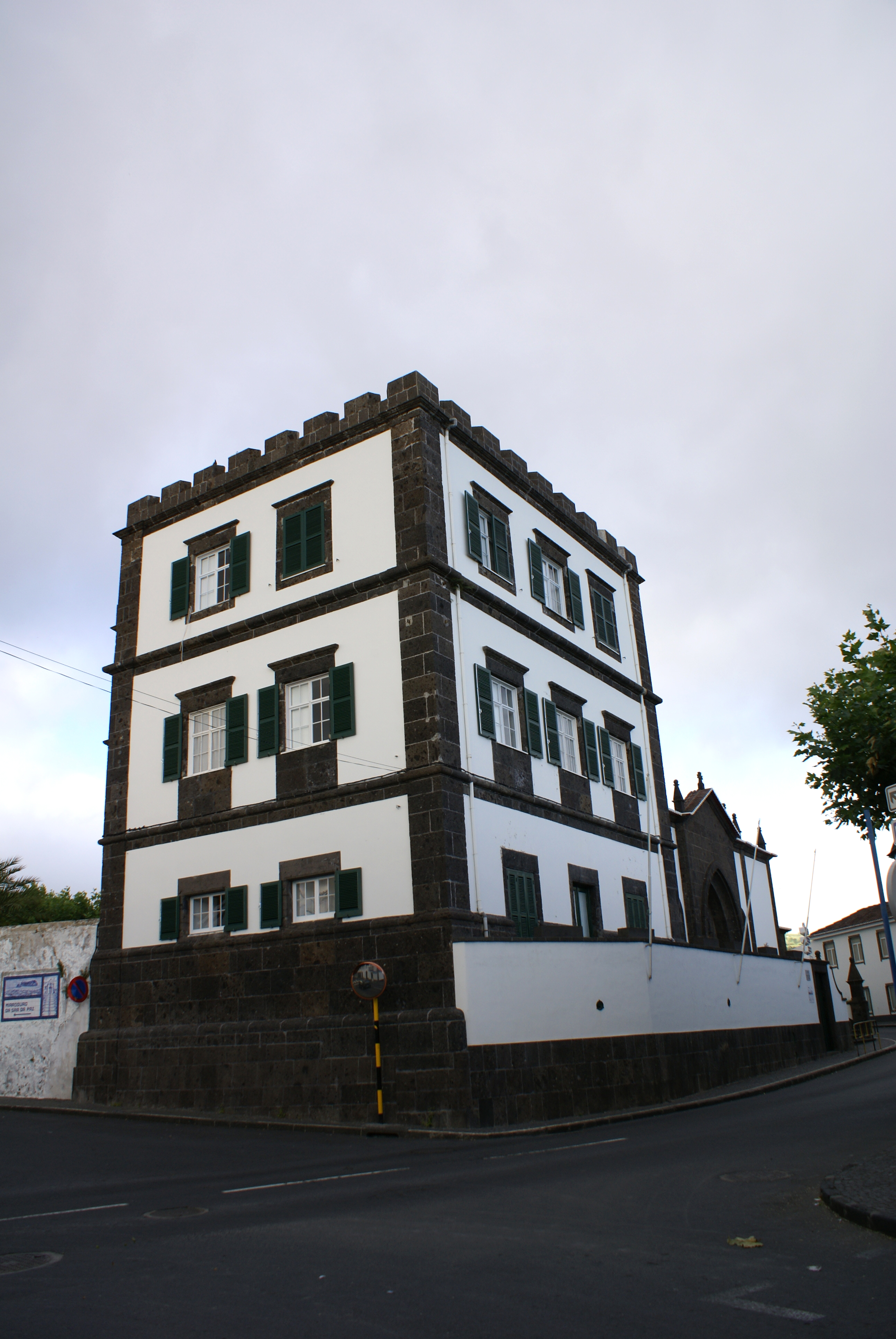 The tower of the Convent of Santo Andrá, Vila Franca do Campo, São Miguel (Azores), Portugal